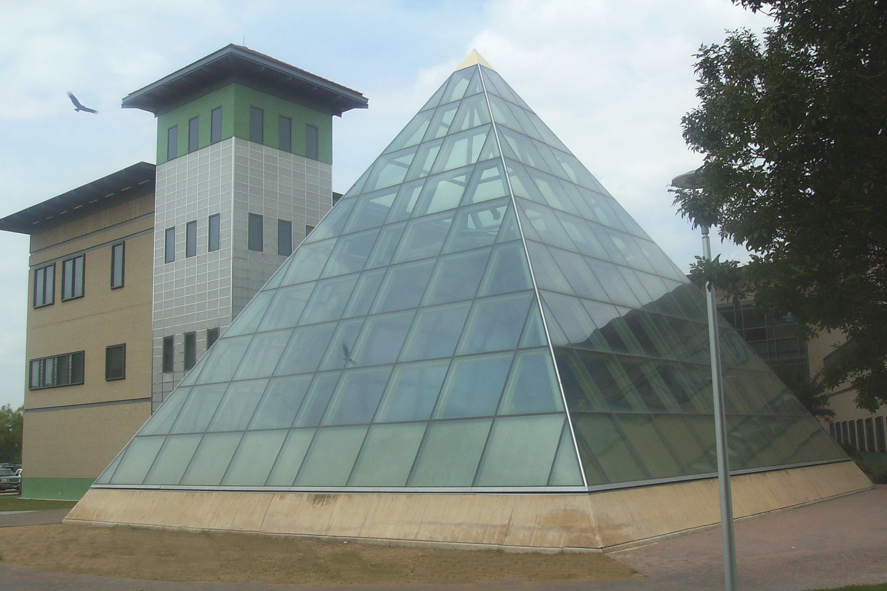 Planetarium in Laredo, Texas